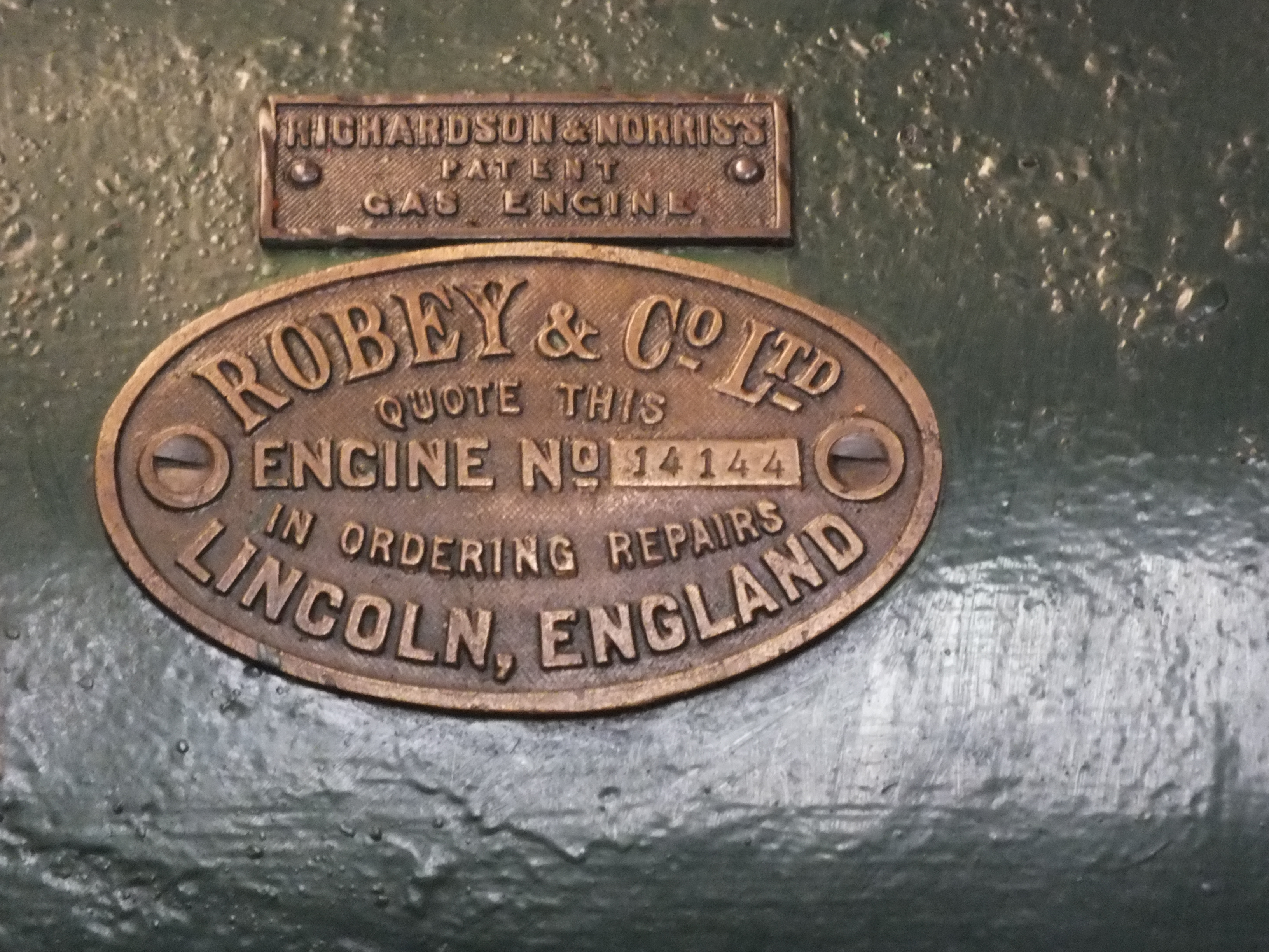 The Anson Engine Museum in Poynton, Cheshire collection. Robey engine Type 4P 14144 Gas Engine built 1895